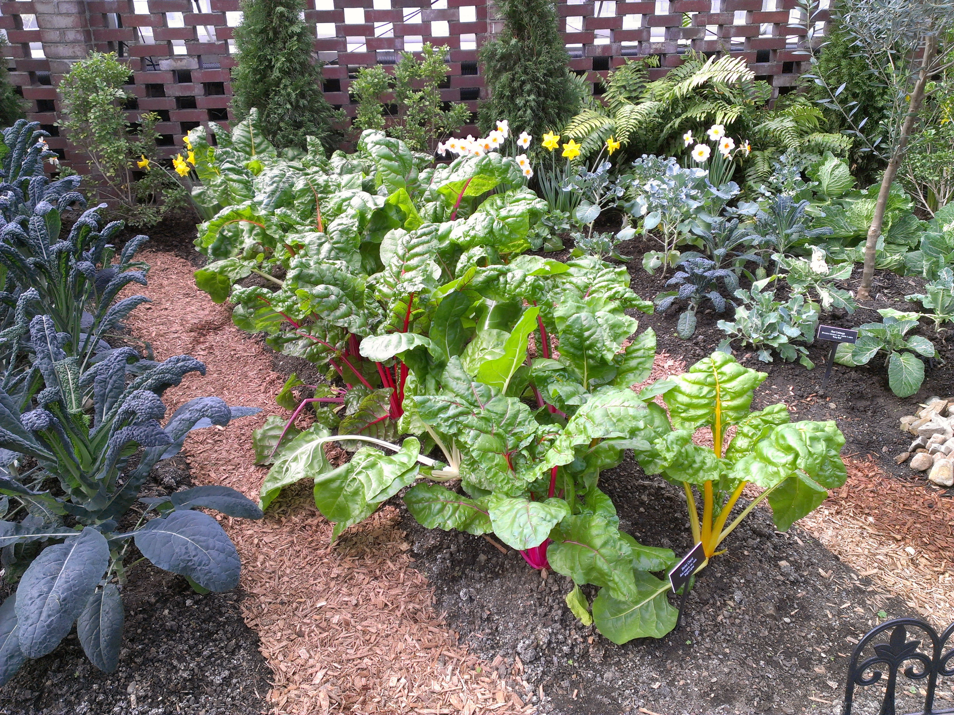 a row of Swiss Chard in the food exhibit at Phipps Conservatory in Pittsburgh, Pennsylvania